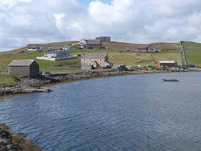 Head of Symbister Harbour